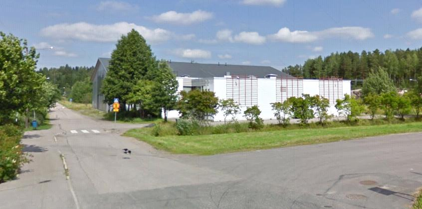 Kerava Areena